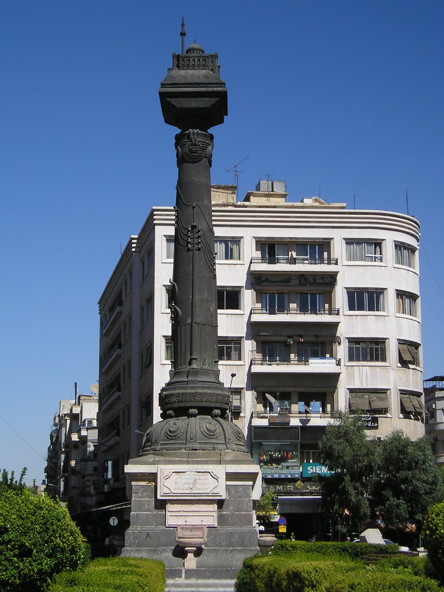 Damascus, Syria - the column at Al Merjeh square